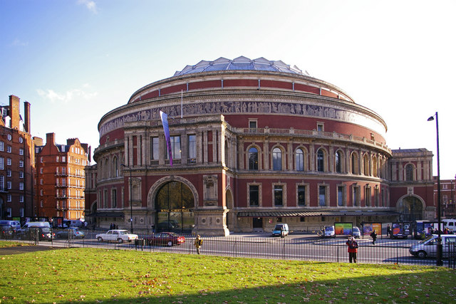 Royal Albert Hall, Kensington, London Royal Albert Hall as seen from Kensington Gardens.